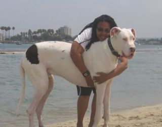 Titan (dog)